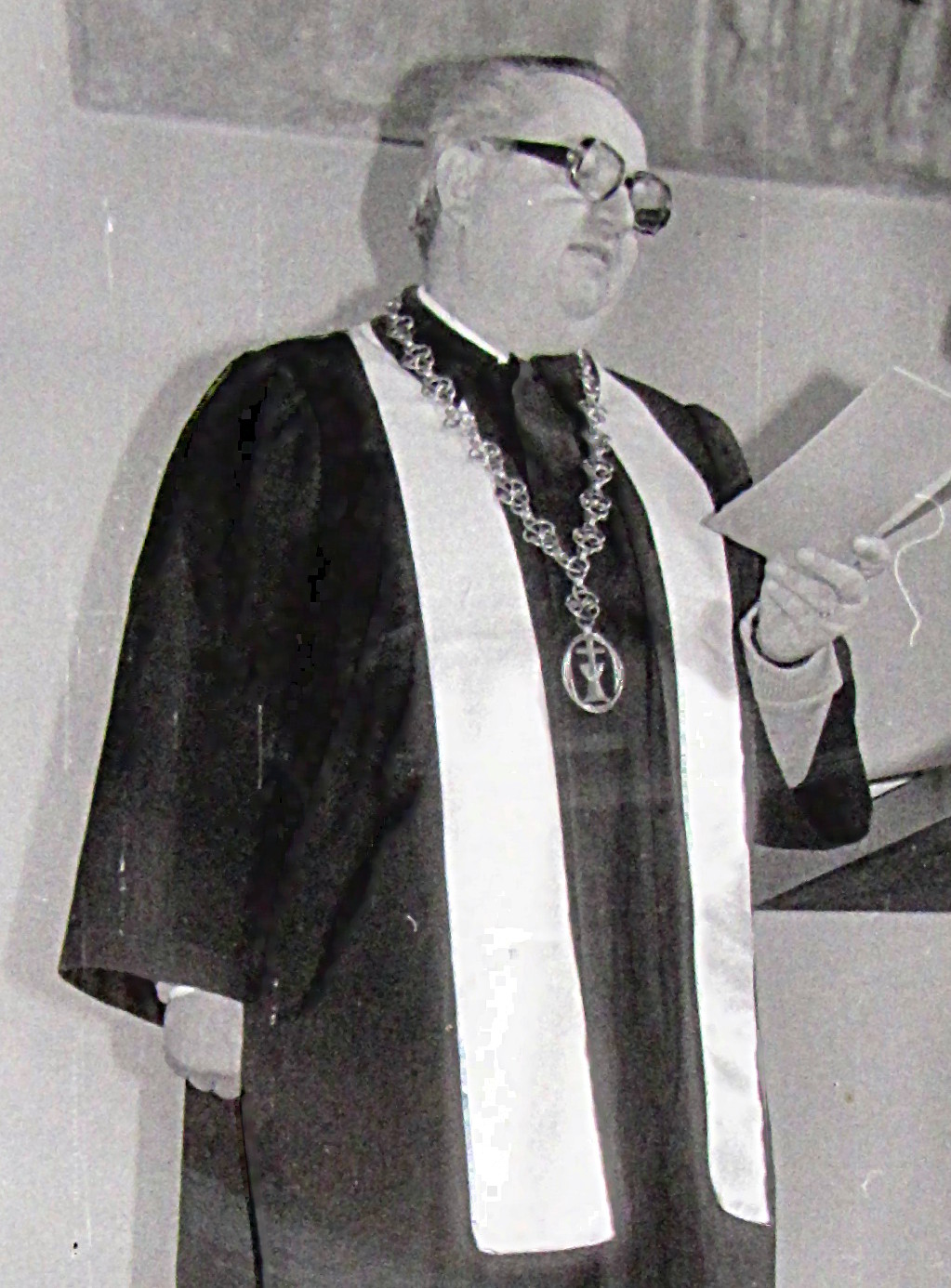 René Hradský